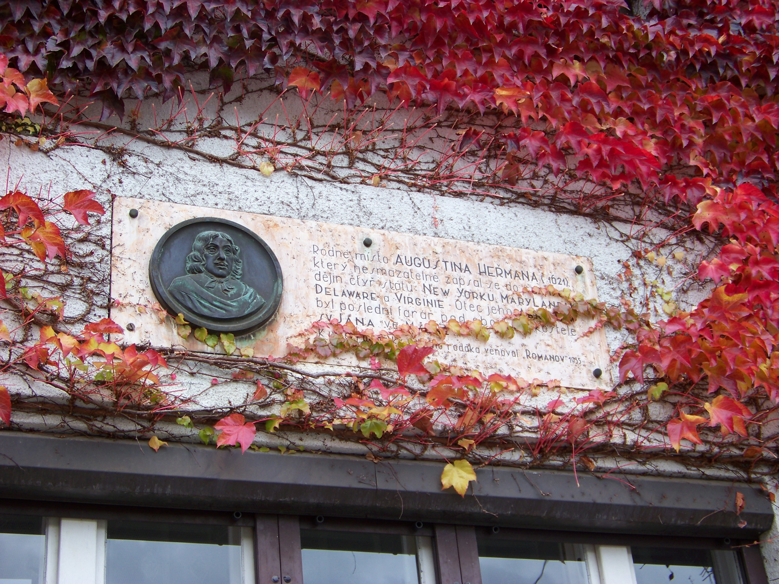 Mšeno, Mělník District, Central Bohemian Region, the Czech Republic. Cinibulkova street, a plaque to Augustine Herman (1621).